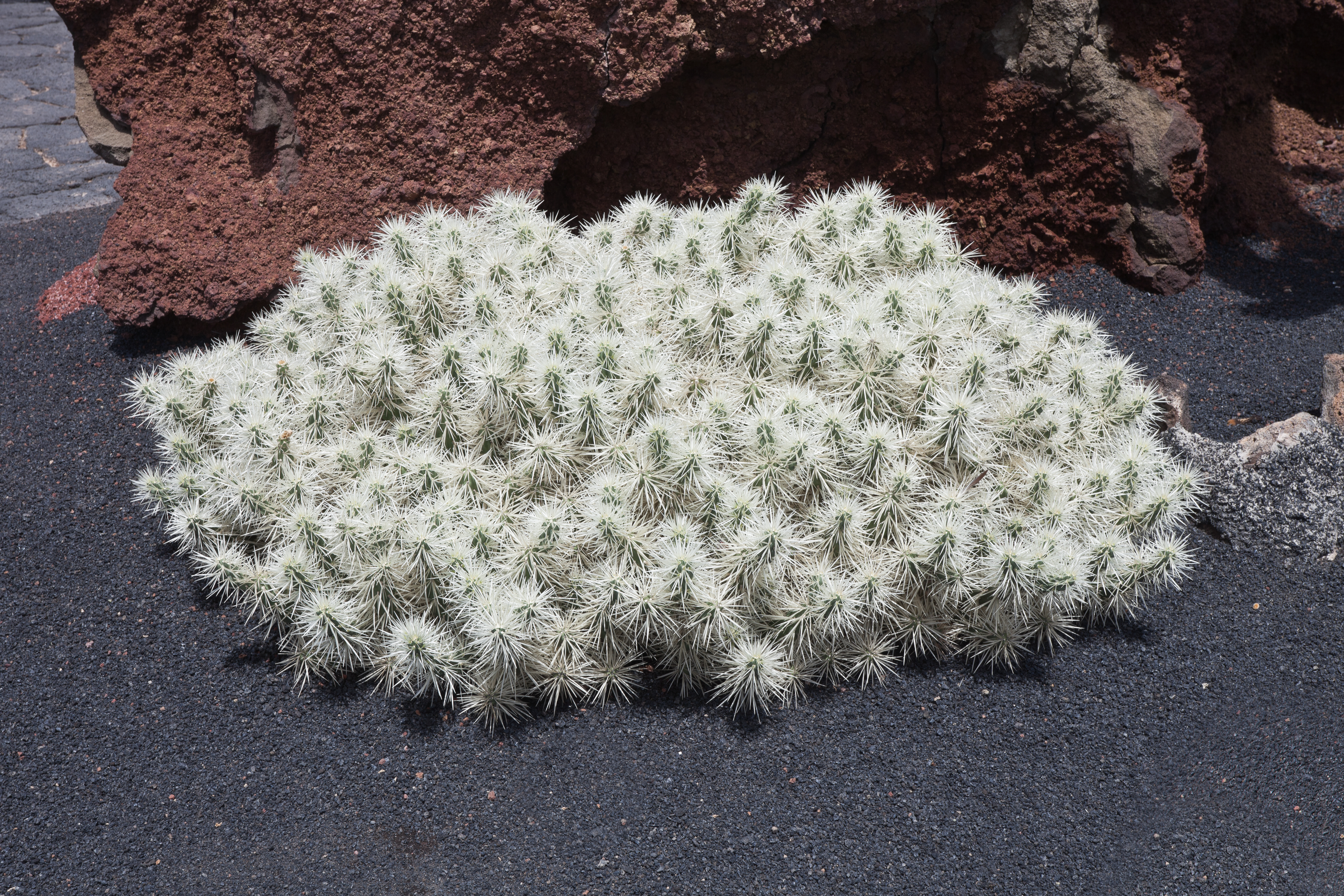 Cylindropuntia tunicata (= Opuntia tunicata), Jardín de Cactus, Guatiza, Lanzarote, Spain Determinada en Biodiversidadvirtual por Ángela Canet.